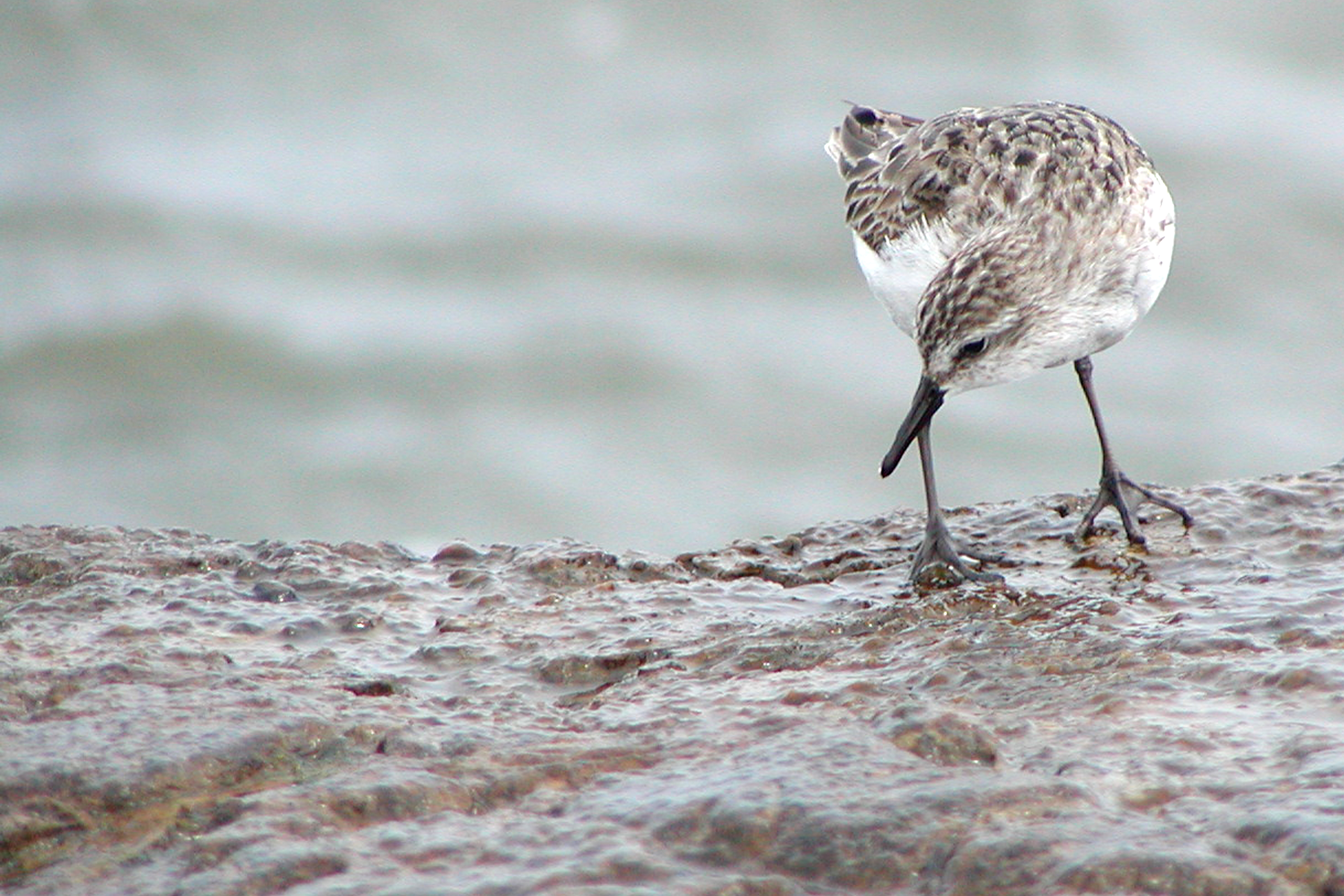 Calidris pusilla, Long Beach Island, New Jersey, USA.